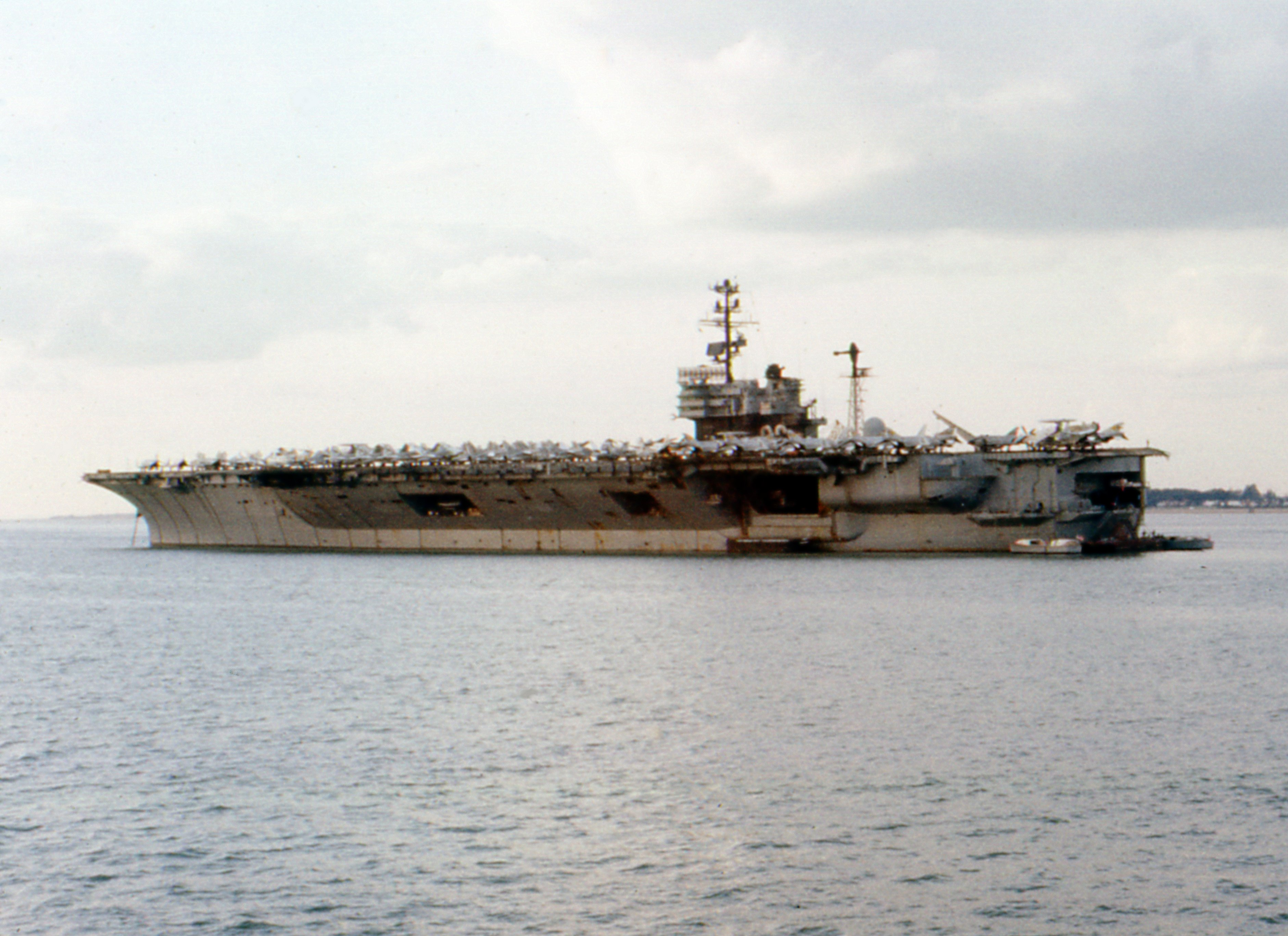 The massive bulk of the USS "AMERICA" anchored off Portsmouth in the Solent in the early 1970s. Name: USS America Ordered: 25 November 1960 Builder: Newport News Shipbuilding Laid down: 9 January 1961 Launched: 1 February 1964 Commissioned: 23 January 1965 Decommissioned: 9 August 1996 Reclassified: CV-66 Struck: 9 August 1996 Homeport: Norfolk, Virginia Motto: Don't Tread On Me Nickname: The Big "A" Fate: Expended as a target 14 May 2005 General characteristics Class & type: Kitty Hawk-class aircraft carrier Displacement: 61,174 long tons (62,156 t) (light), 83,573 long tons (84,914 t) (full load), 22,399 long tons (22,758 t) (dead) Length: 990 ft (300 m) (waterline), 1,048 ft (319 m) overall Beam: 248 ft (76 m) extreme, 129 ft (39 m) waterline Draft: 38 ft (12 m) (maximum), 37 ft (11 m) (limit) Installed power: 280,000 hp (210 MW) Propulsion: 4 × steam turbines 8 × boilers 4 × shafts Speed: 34 kn (39 mph; 63 km/h) Complement: 502 officers, 4684 men Sensors and processing systems: AN/SPS-49 AN/SPS-48 Electronic warfare & decoys: AN/SLQ-32 Armament: Terrier missile (replaced with Sea Sparrow) Phalanx CIWS Aircraft carried: about 79 Camera: Olympus Pen F Half Frame.